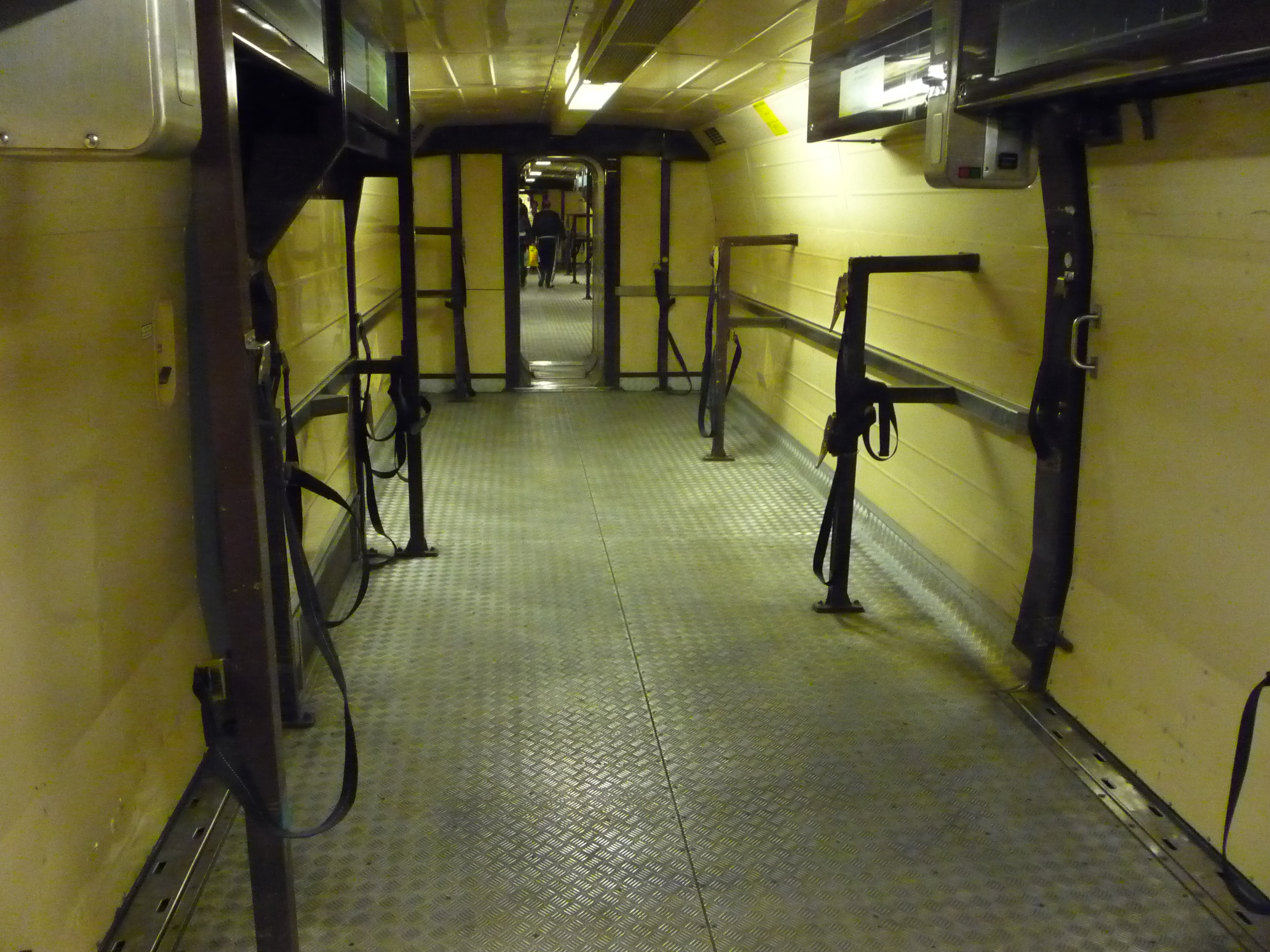 Interior of the TGV La Poste Postal TGV trains